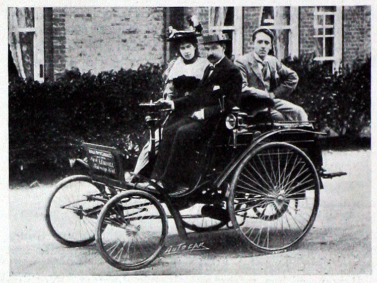 Arnold-Benz, driven by Alfred Cornell (c1853-1941), watchmaker, jeweler and inventor.